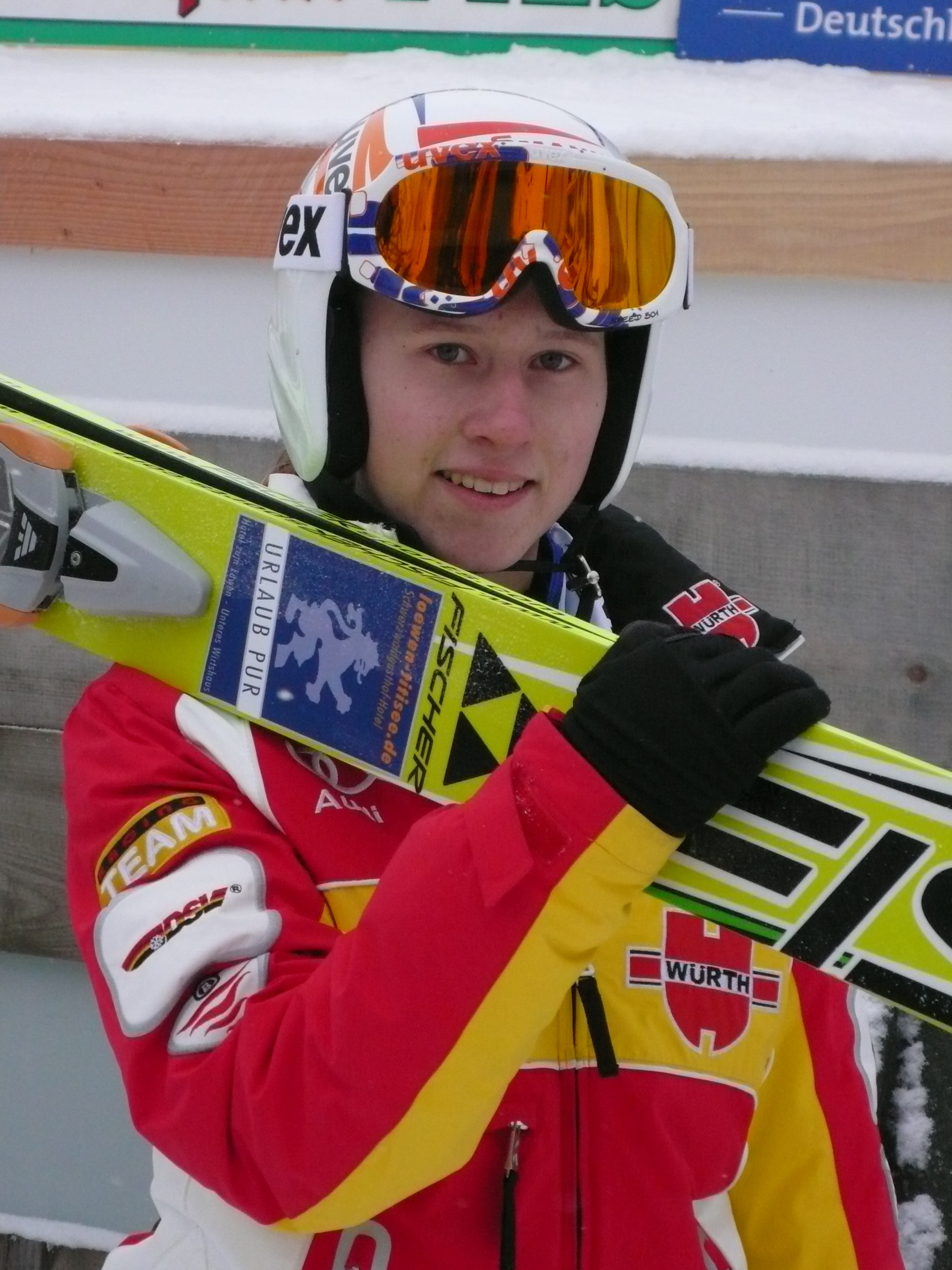 Ramona Straub: training during the World Junior Championship of Nordic Skiing in Hinterzarten on the 2010-01-28